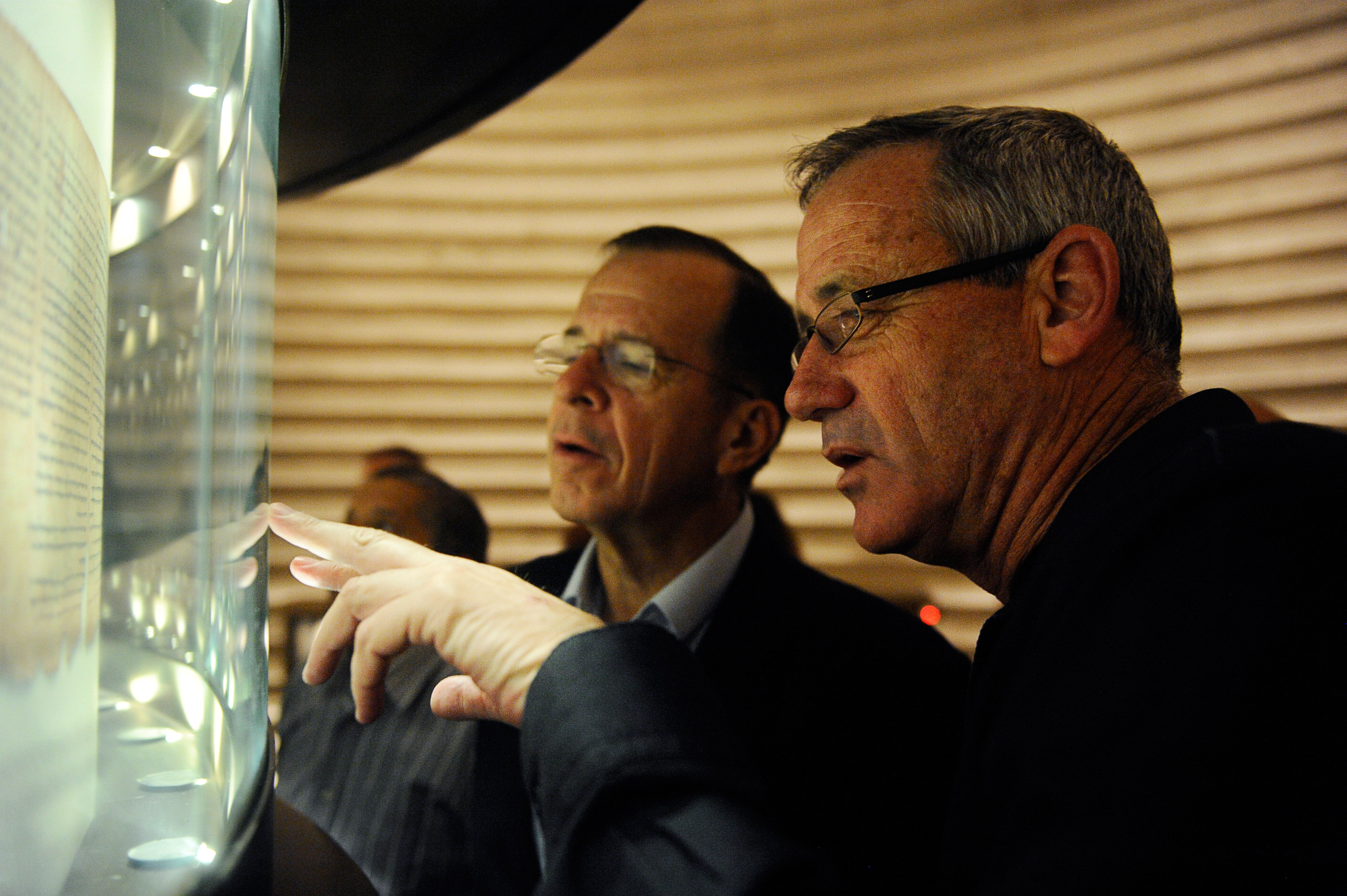 July 19, 2011. Today, the highest ranking US military officer, the Chairman of the Joint Chiefs of Staff, Navy Admiral Mike Mullen, visited, alongside with the IDF Chief of Staff , Lt. Gen. Benny Gantz, the Shrine of the Book in Jerusalem, which houses the Dead Sea Scrolls. The two generals are seen here examining the Dead Sea Scrolls, the oldest known copies of biblical and other ancient holy manuscripts. The discovery of the Scrolls, beginning in 1947, is considered to be one of the most important archeological finds in history. Photography: Sgt. Ori Shifrin, IDF Spokesperson's Unit היום (ד') רב-אלוף בני גנץ ויו"ר המטות המשולבים, האדמירל מייקל מאלן ביקרו ב"היכל הספר" שבמוזיאון ישראל בירושלים, בו מוצגים מגילות ים-המלח, הנחשבות לממצא הארכאולוגי החשוב ביותר שנתגלה אי פעם. צילום: סמל אורי שיפרין, דובר צה"ל